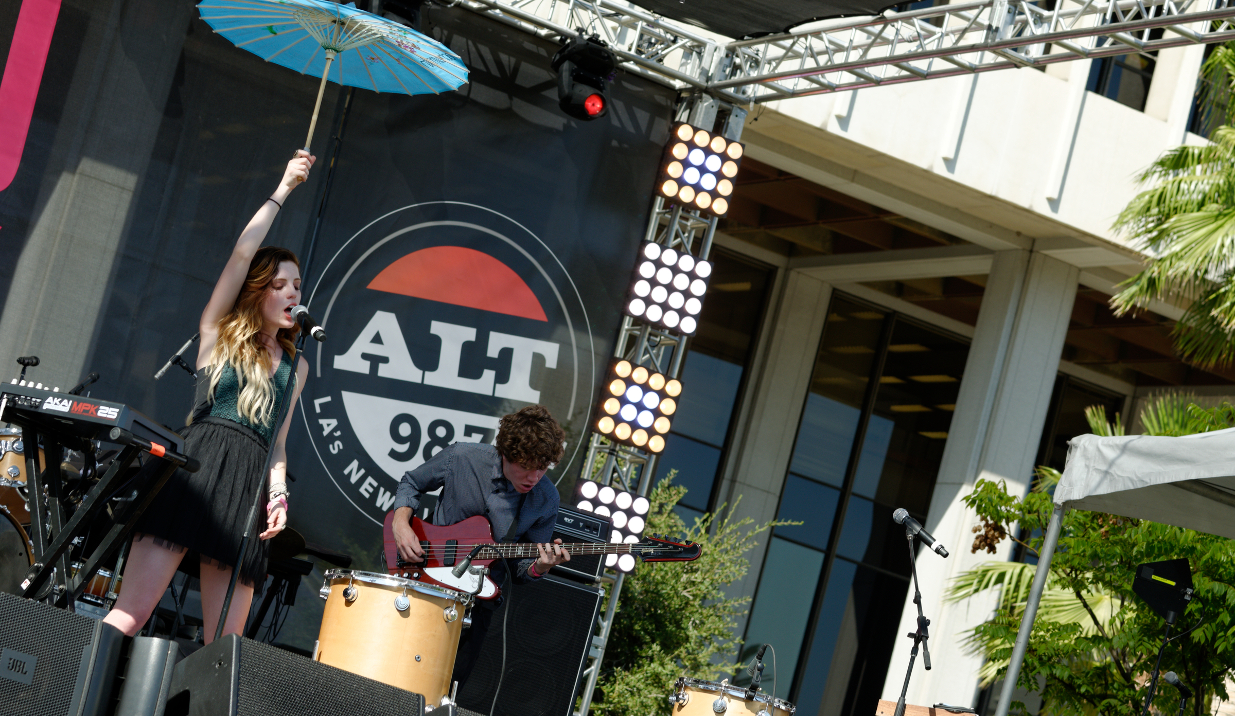 Echosmith performing live at Grand Park in downtown Los Angeles California on Friday July 4th, 2014. Part of the 2014 ALTimate 4th of July Block Party presented by Grand Park and L.A. radio station ALT 98.7 FM.